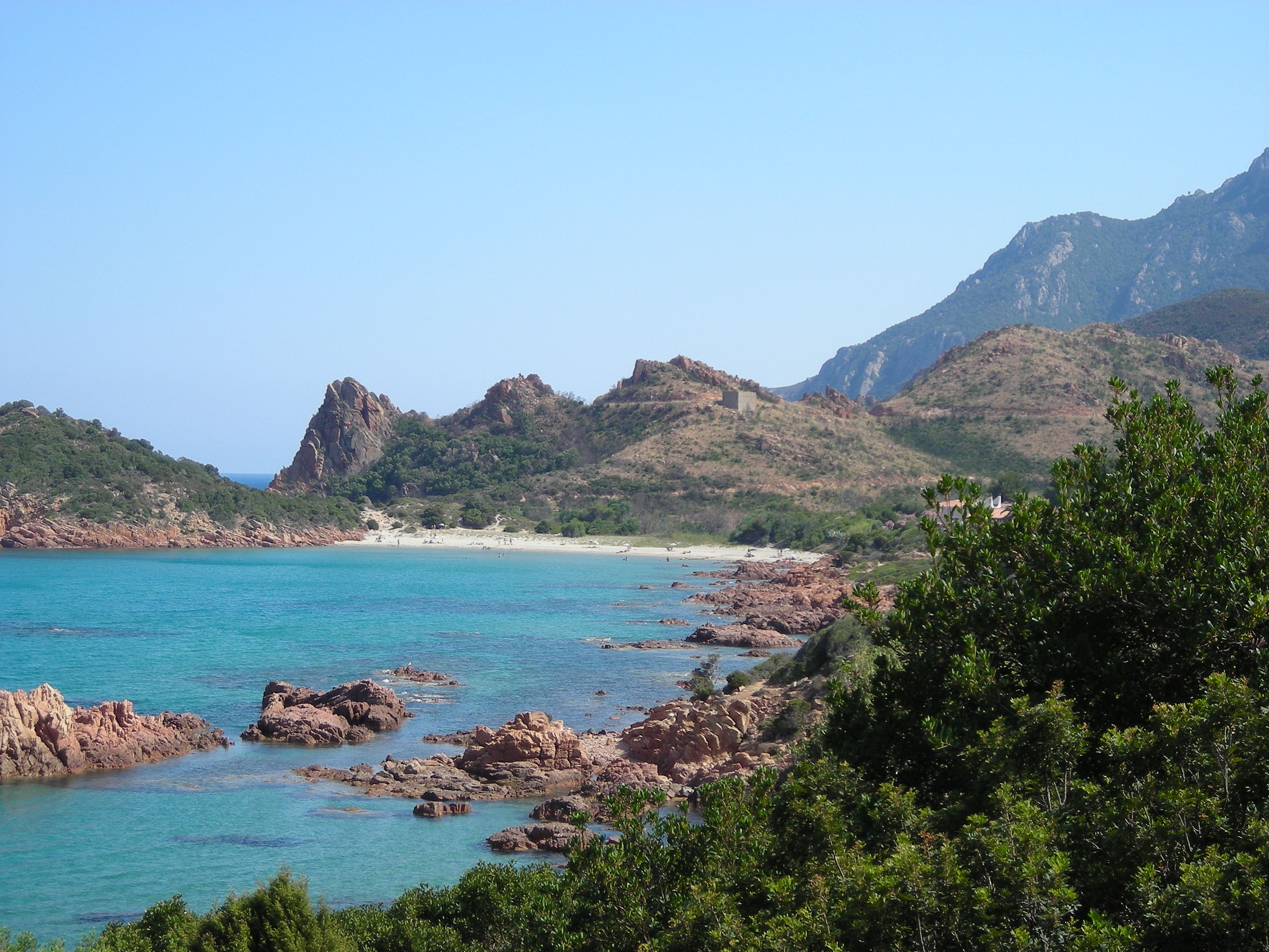 The beach of Su Sirboni in Gairo (OG - Italy), in the place called Marina di Gairo. "Su sirboni" means "wild boar" in Sardinian language.